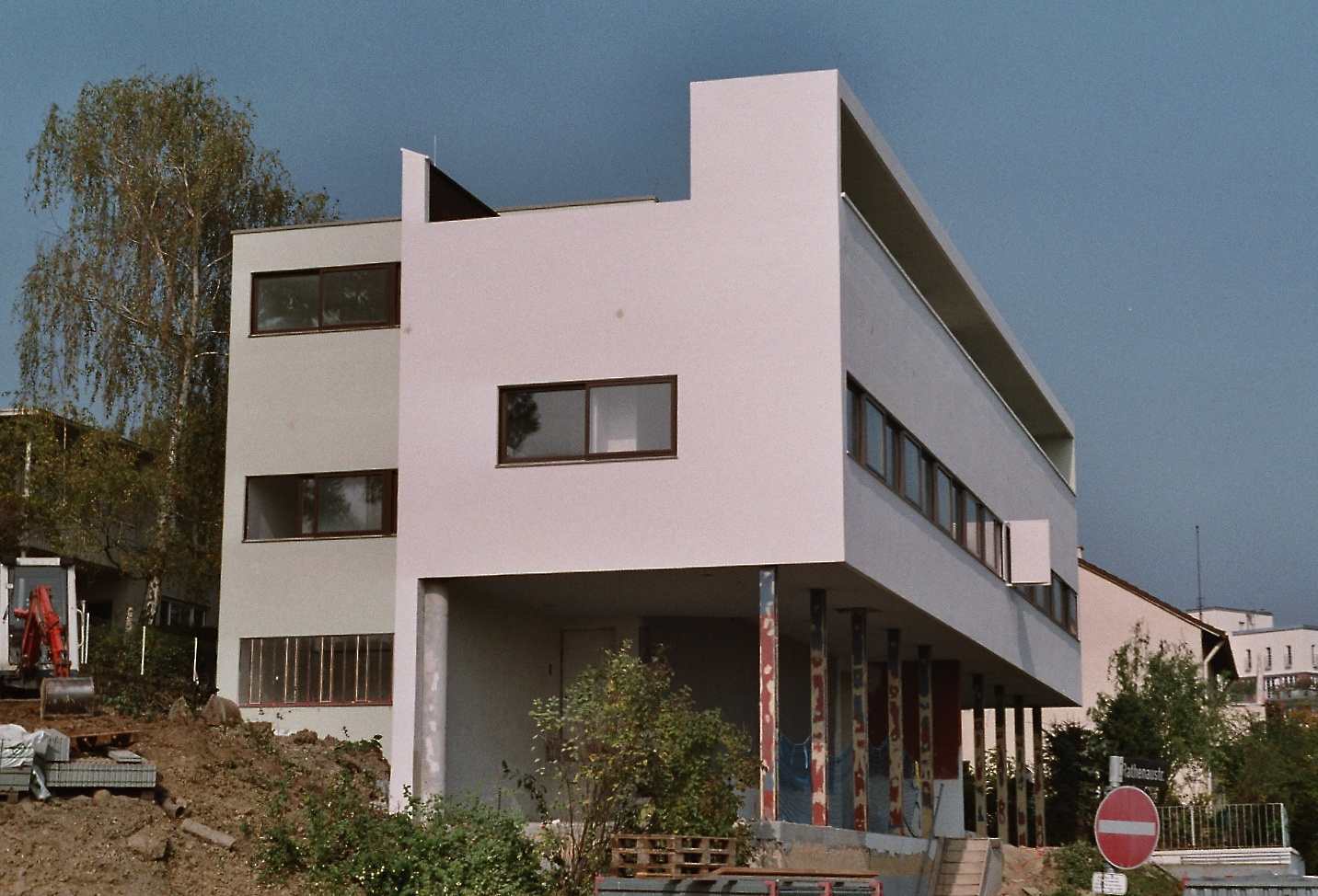 Stuttgart, Weissenhofsiedlung, semi-detatched house by Le Corbusier. 1927, international style.